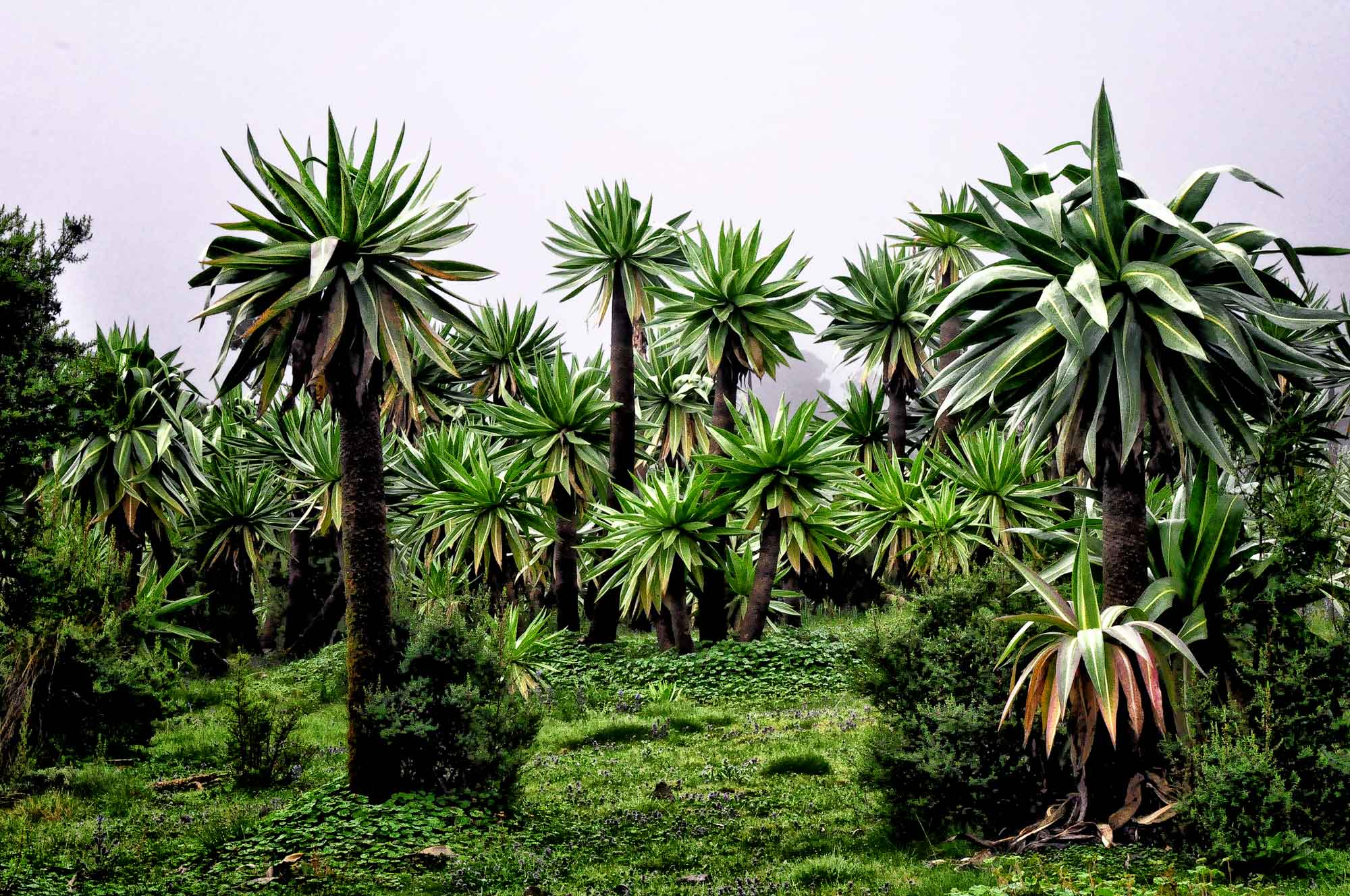 Giant Lobelia, Simien Mts. They grow at 3600m at Chenek and up to 4m tall.